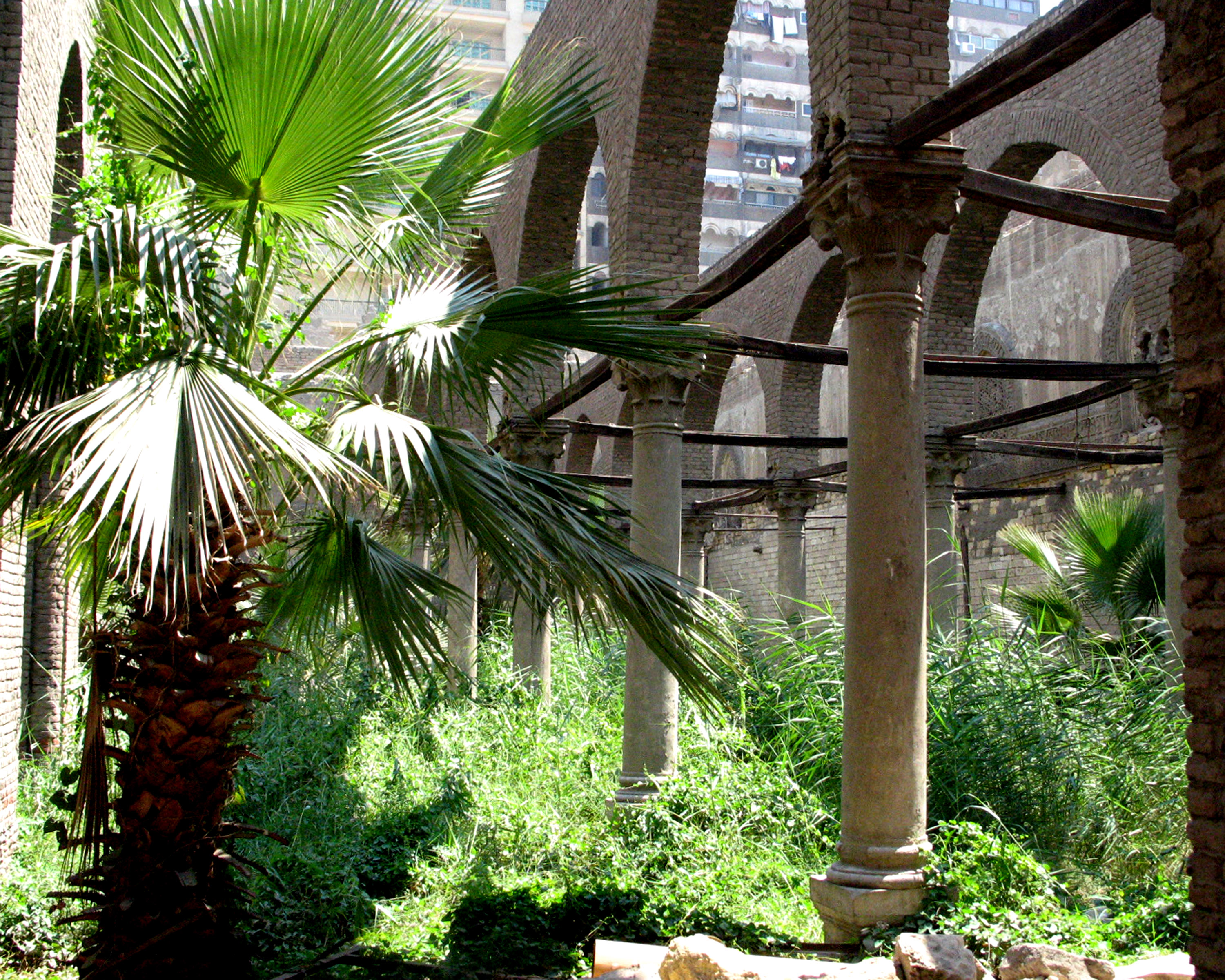 Interior of Al-Zahir Baybars's mosque